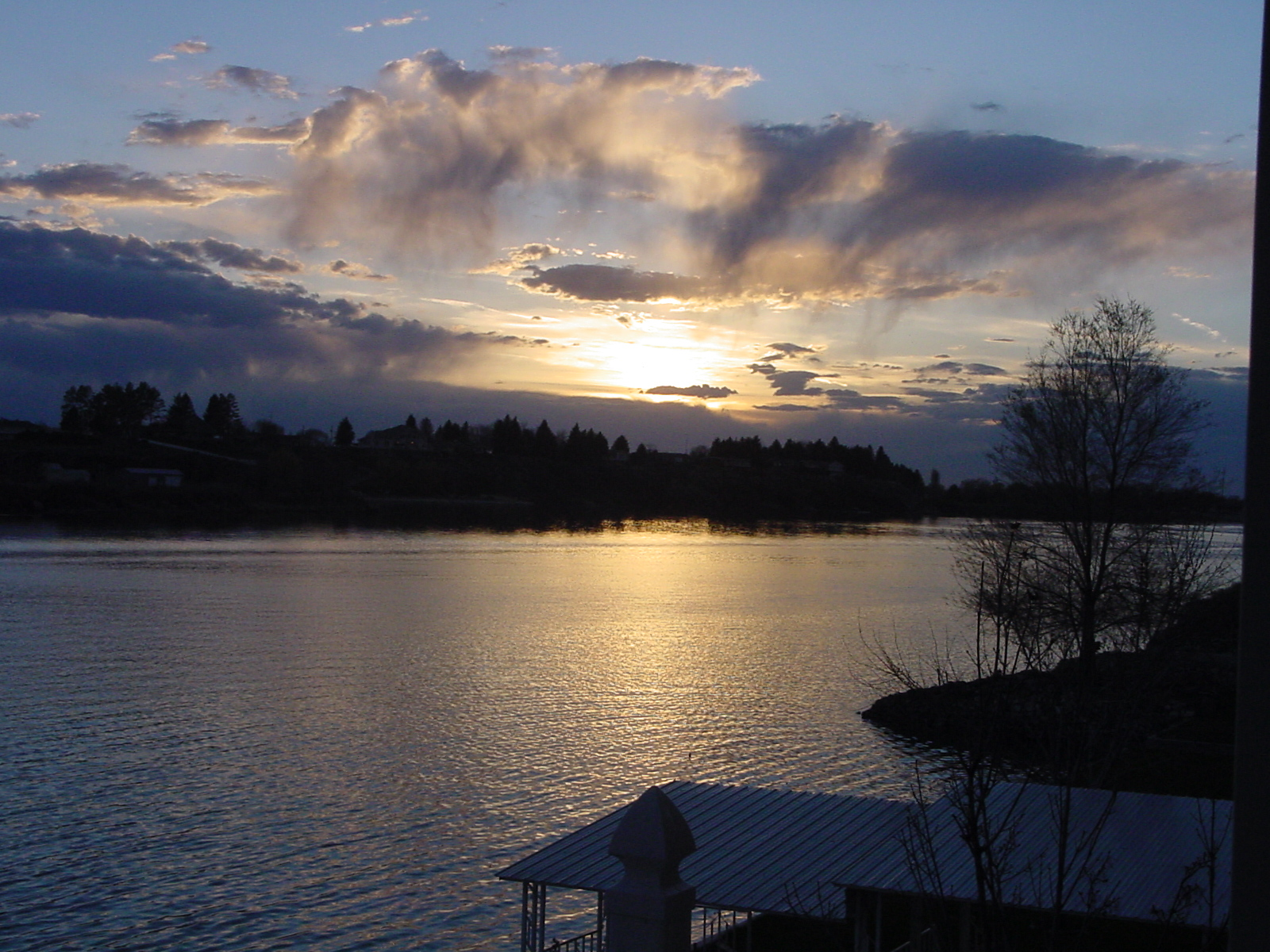 This is an image taken from Heyburn, Idaho looking across the Snake River at Burley, Idaho.